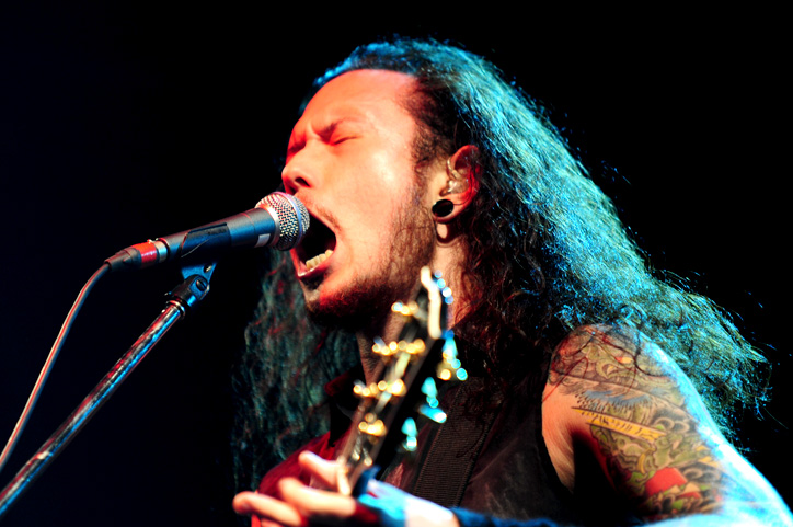 Soundwave Festival 2010